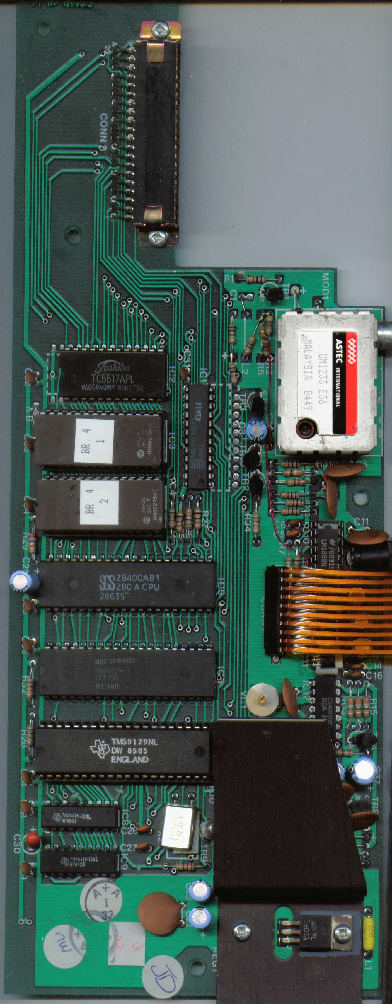 BBC Bridge Companion PCB scan.